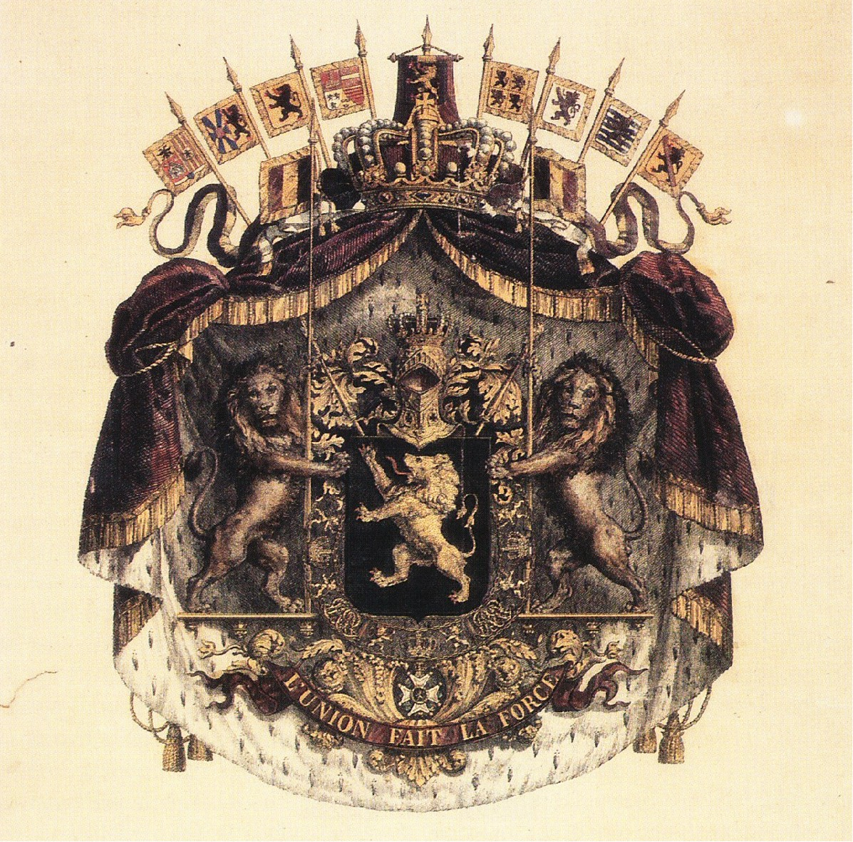 Great coat of arms of the Kingdom of Belgium